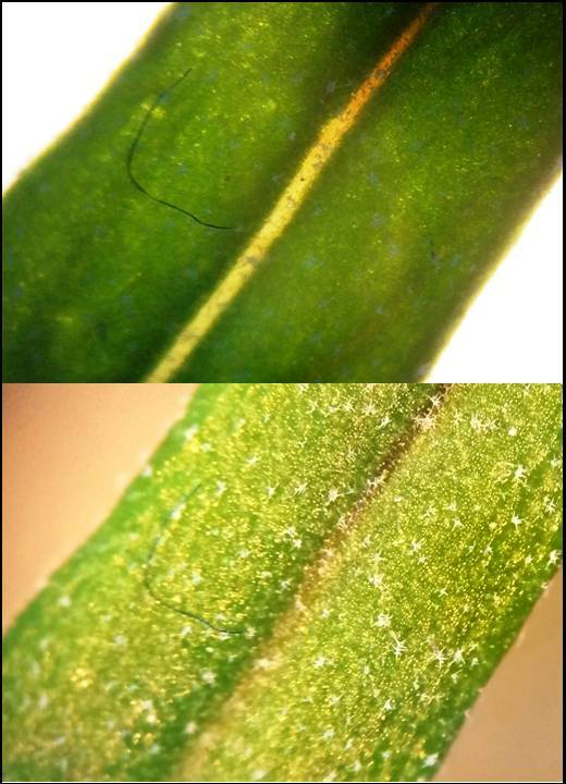 Image of cultivated Lavandula leaf, seen through a 2x20 binocular microscope, and photographed with iPhone 5s cellphone camera. The photo above is taken with light source from below (through) the leaf, while the photo below is taken with light source above (at) the leaf. The star-shaped hairs are clearly visible (below).